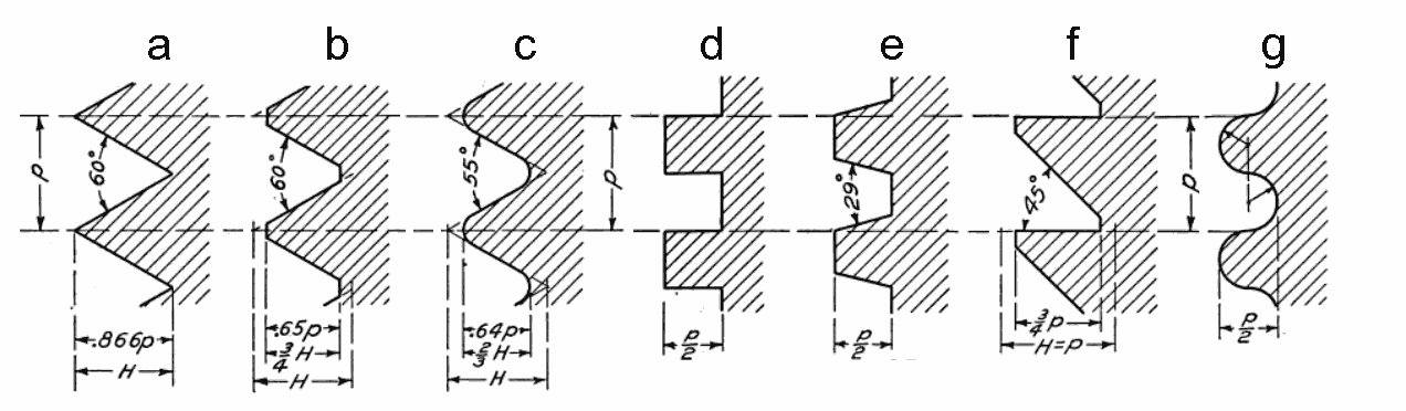 Outlines of seven common standard screw threads. They are: (a) V-thread (b) American National thread - Similar to today's Unified thread (c) Whitworth or British Standard thread (d) Square thread (e) Acme thread (f) Buttress thread (g) Knuckle thread Alterations to images: cut and pasted the seven original source images in different order into one image.